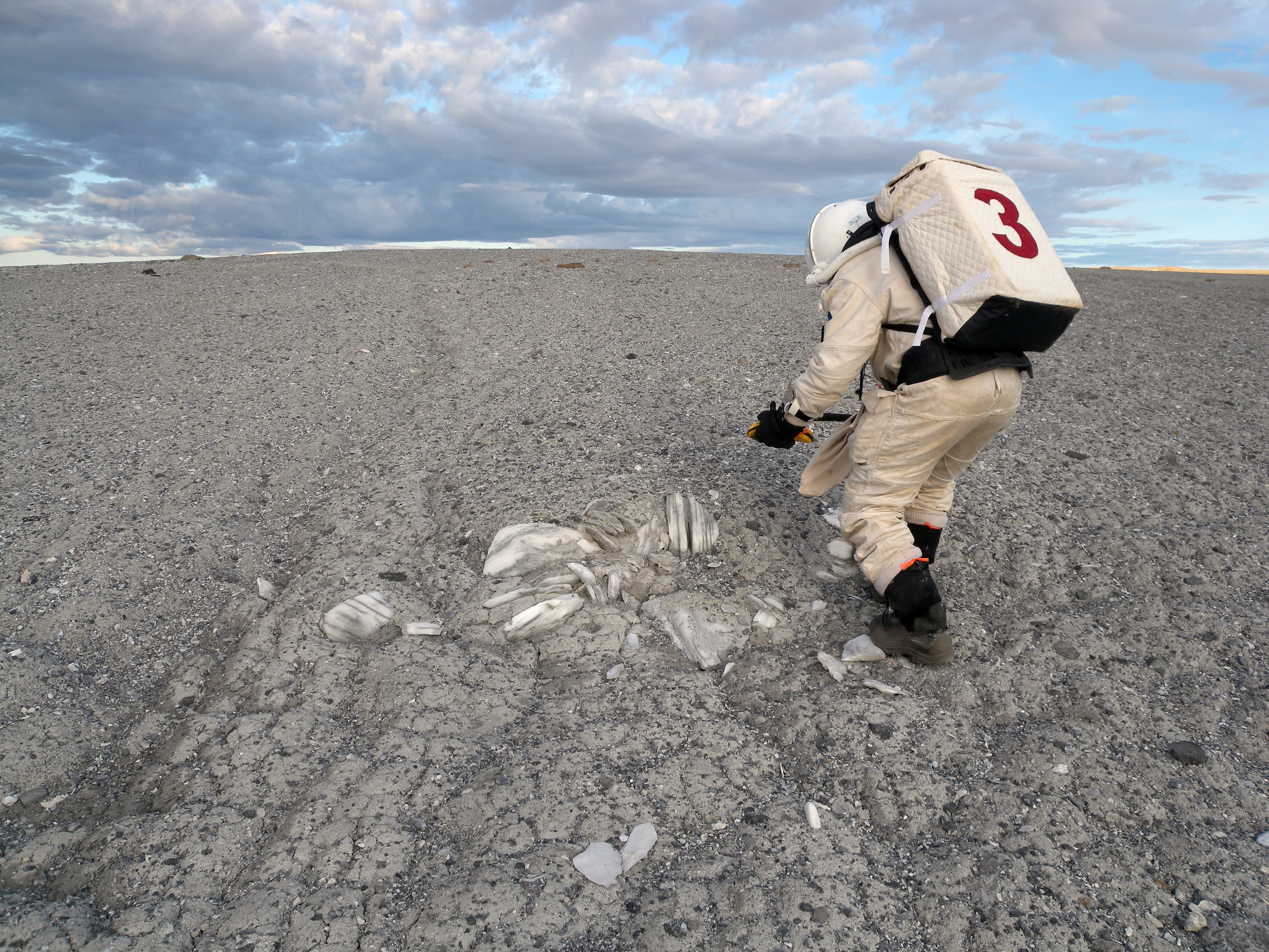 Finding a gypsum deposit at Gemini Hills in the Haughton Impact Crater